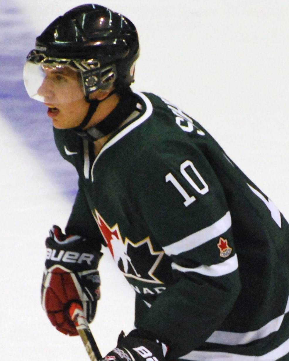 Brayden Schenn during a Team Canada exhibition game.